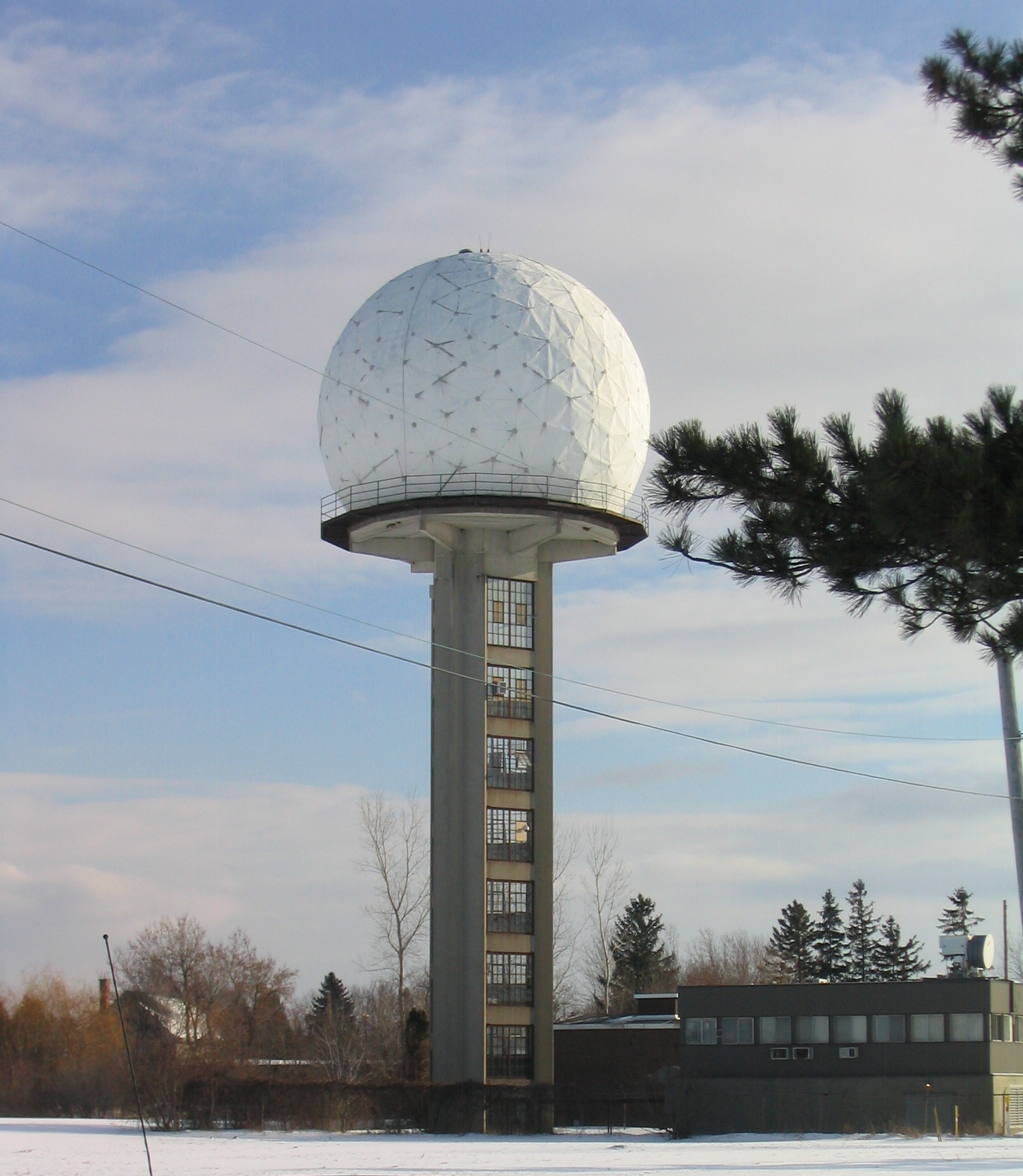 Tower and Radar dome of the J.S. Marshall Radar Observatory from McGill University. It is part of the Canadian weather radar network under the code CWMN.La tour et le radôme de l'Observatoire radar J.S. Marshall de l'université McGill. Il fait partie du réseau canadien de radars météorologiques sous le code CWMN.